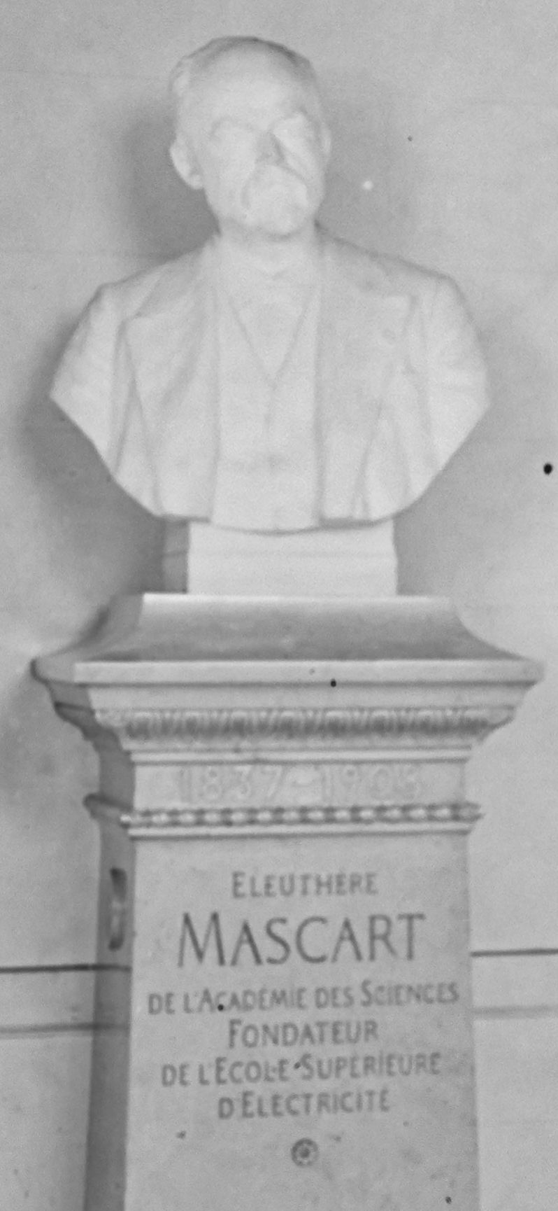 Eleuthere Mascart (b. 1837 - d. 1908), French physicist.